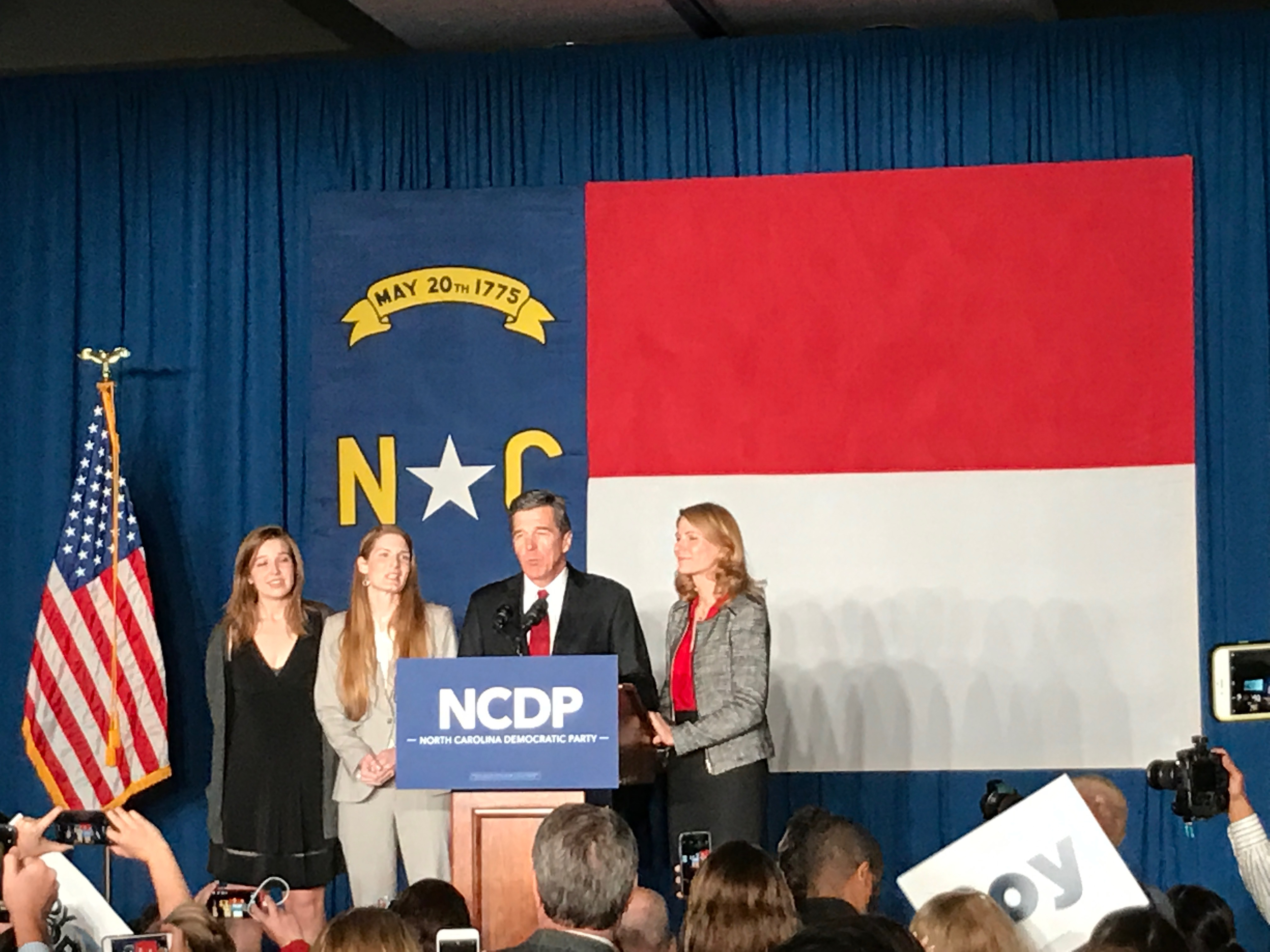 Attempting to stop Armageddon